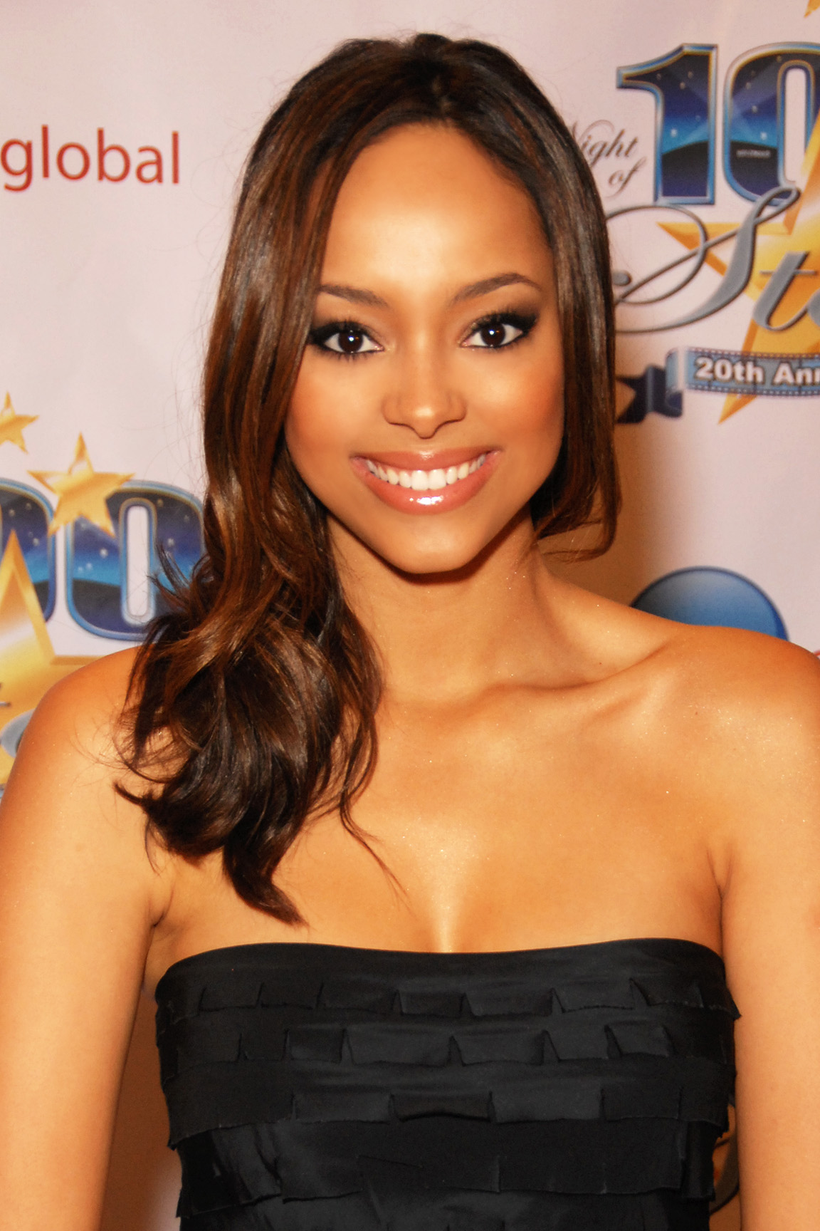 Amber Stevens attending the "Night of 100 Stars" for the 82nd Academy Awards viewing party at the Beverly Hills Hotel, Beverly Hills, CA on March 7, 2010 - Photo by Glenn Francis of